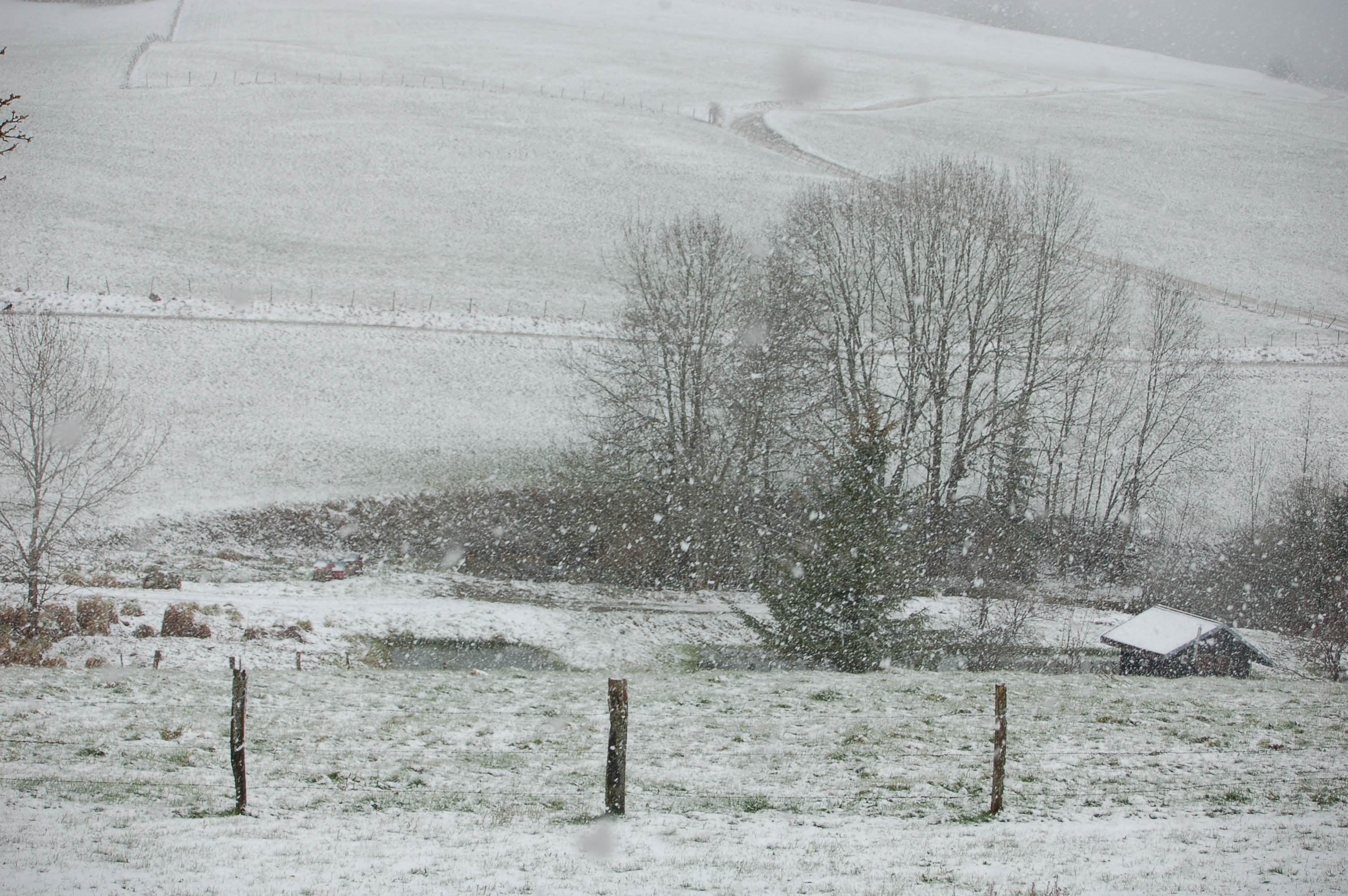 Snowstorm, the Allies (Doubs, 25).